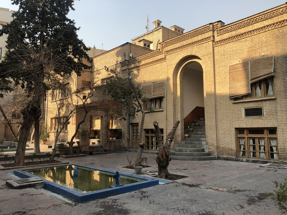 Mohammad Moin house in Tehran